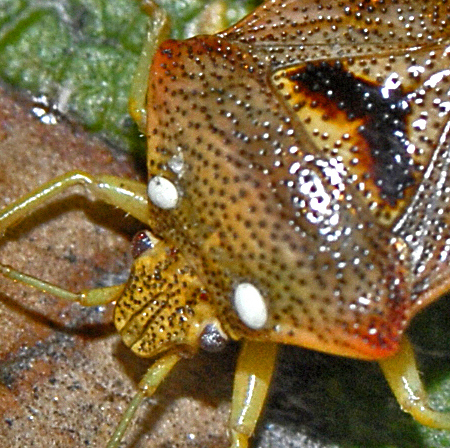 Eggs of Ectophasia crassipennis on Elasmucha grisea (Acanthosomatidae). Val Veny, Aosta, Italy